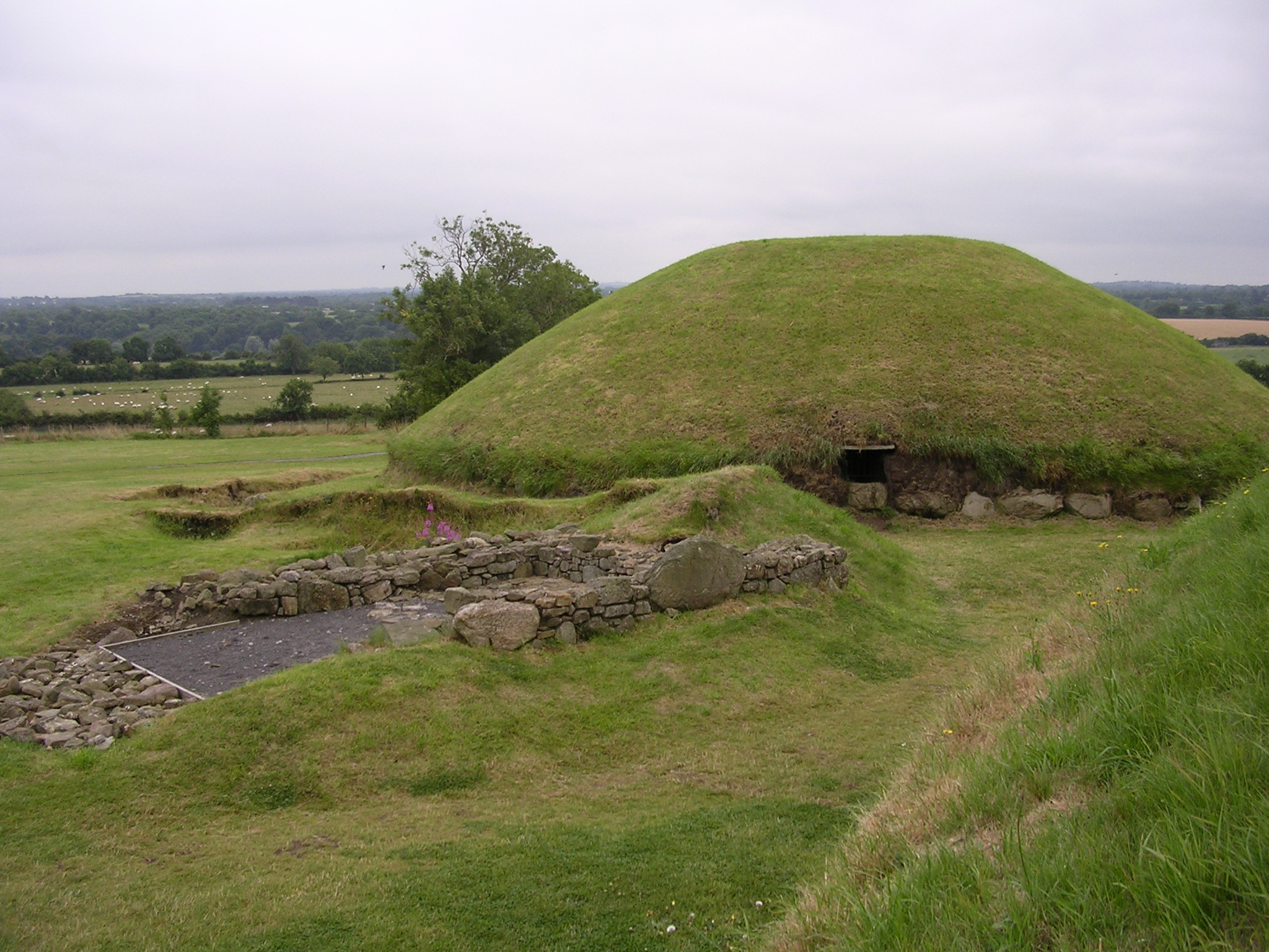 Knowth